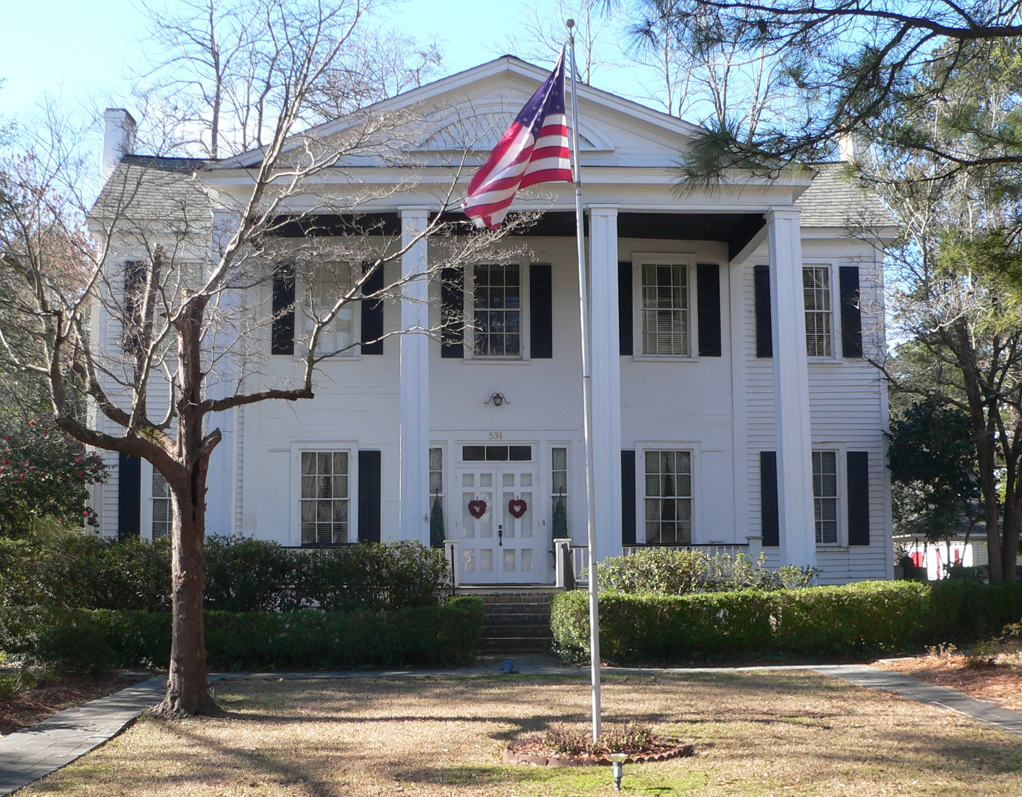 William Rogers house, located at 531 W. Church Street in Bishopville, South Carolina. A historical marker in front of the house identifies it as the birthplace of South Carolina governor Thomas Gordon McLeod.